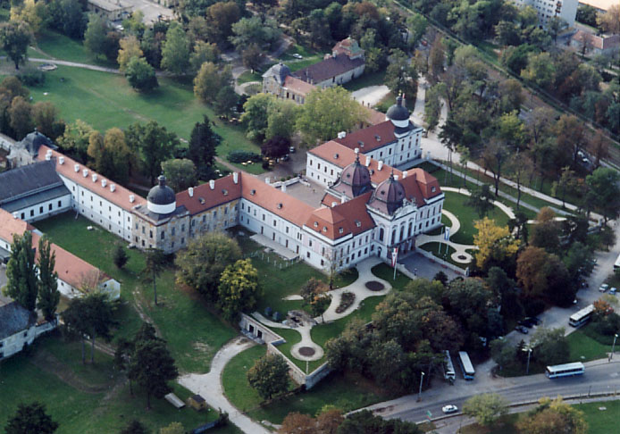 Gödöllő, Hungary, aerial photography This is a photo of a monument in Hungary. Identifier: 7051